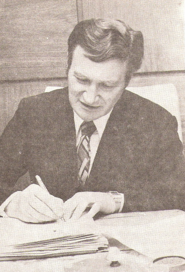 Argentinean writer Jose Narosky